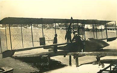 Benoist Type XIV aircraft being launched into the water of Tampa Bay from St. Petersburg, FL on January 1, 1914. It was the first aircraft of the St.Petersburg Tampa Airboat Line.